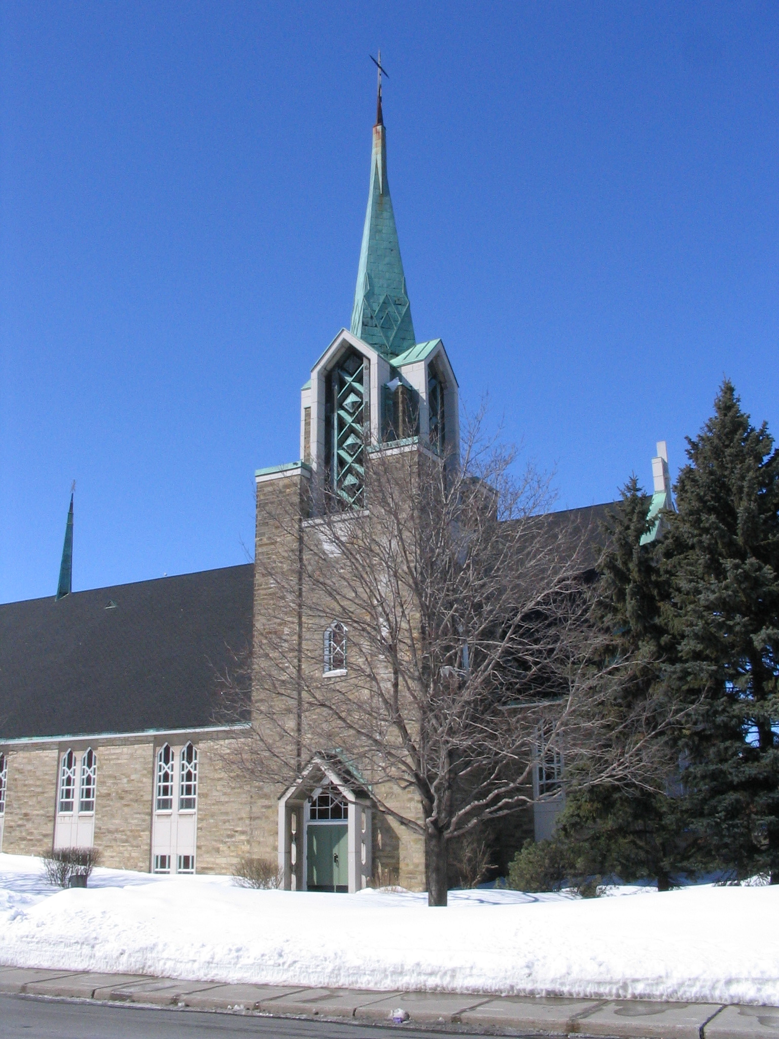 St. Sixtus church is part of the St. Lawrence pastoral unit in the diocese of Montreal.